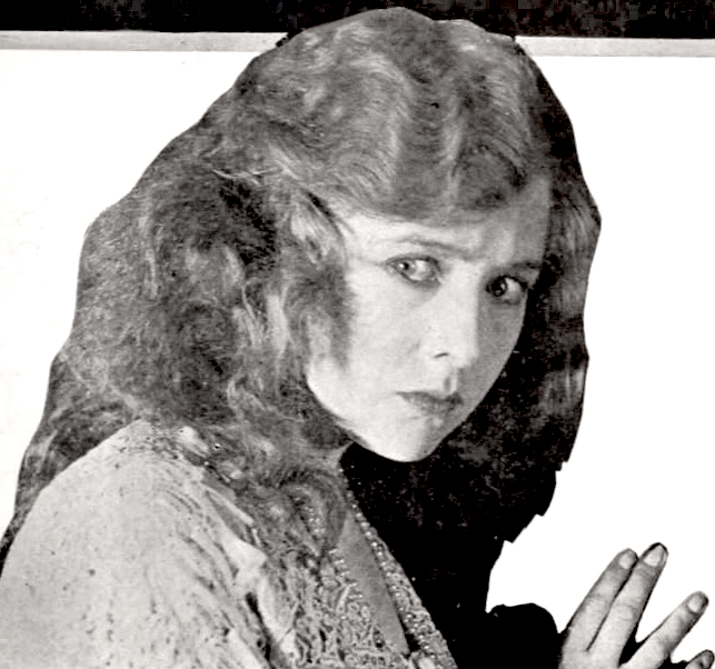 Jewel Carmen in Confession (1918)